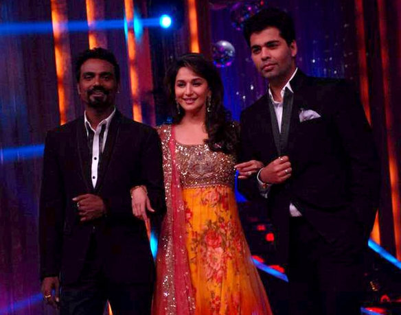 Dixit on the launch of Jhalak Dikhhla Jaa 5 along with her co-judges Remo D'souza and Karan Johar